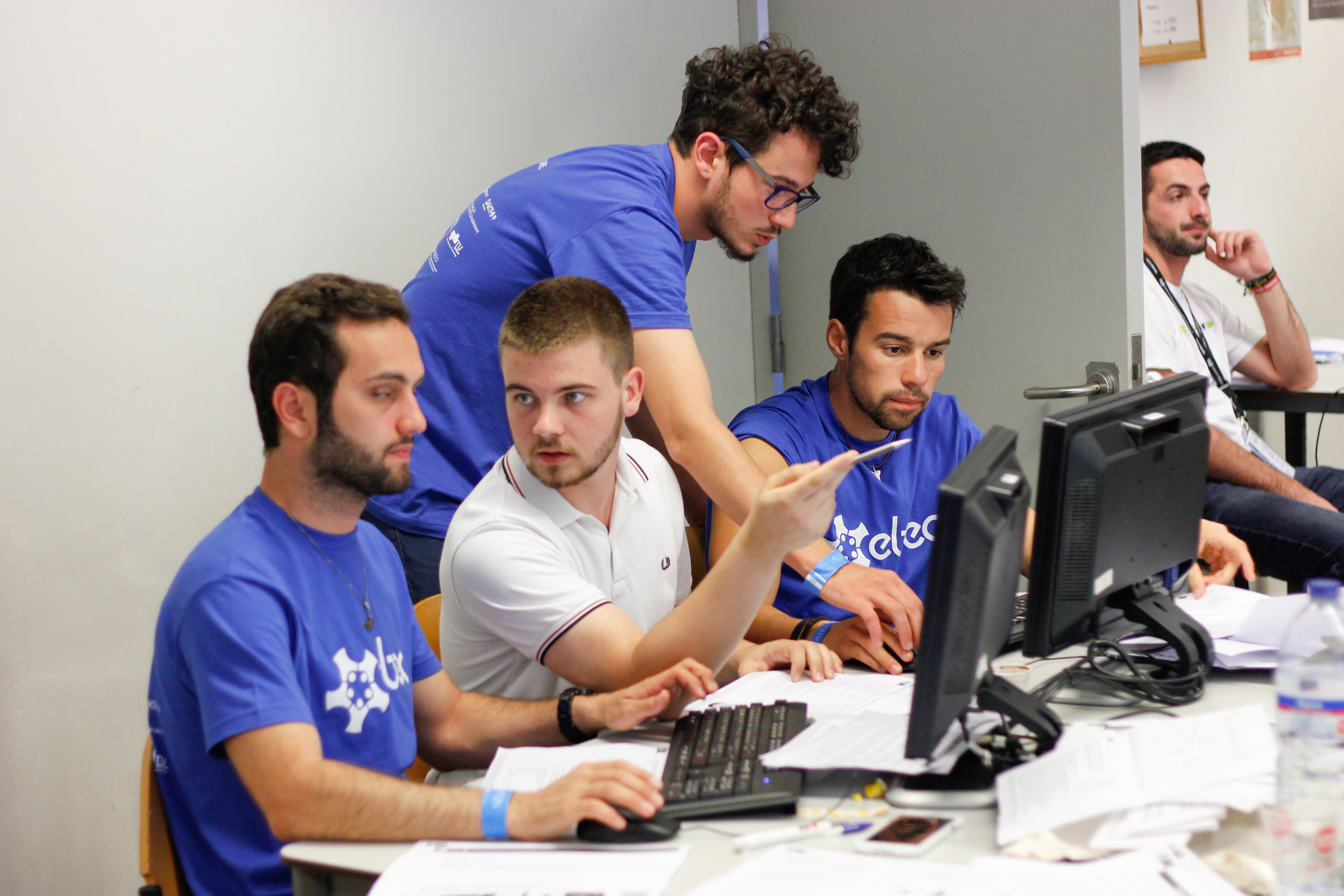 Case Study Caption 1